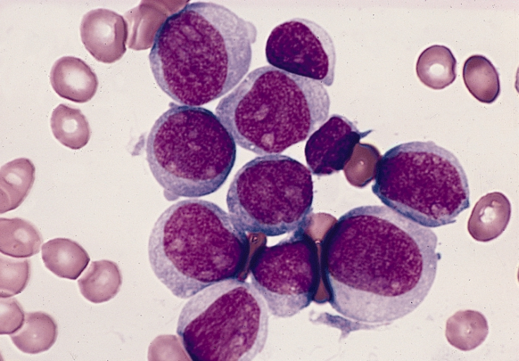 BONE MARROW: ACUTE MYELOBLASTIC LEUKEMIA WITHOUT MATURATION (AML-M1) Agranular myeloblasts in a bone marrow smear from a patient with AML-M1 showing variation in size, amount of cytoplasm, and degree of cytoplasmic basophilia. (Wright-Giemsa stain)